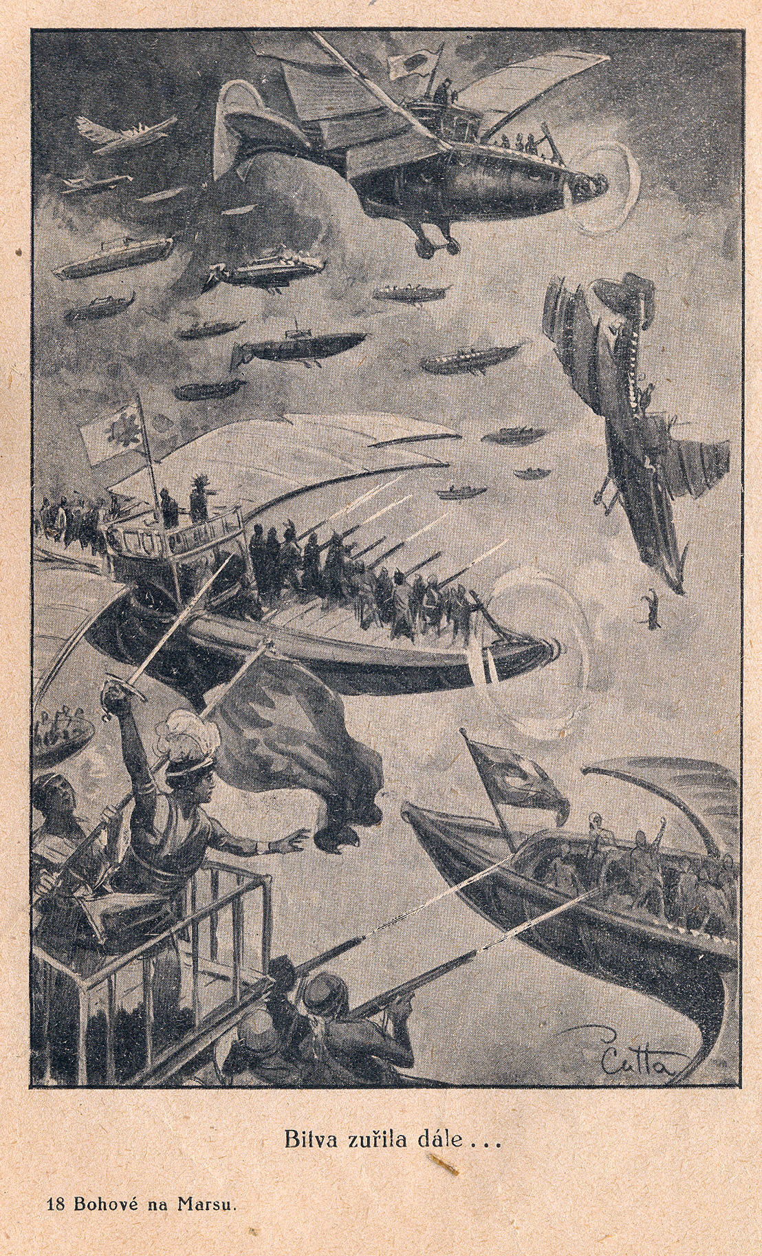 czechoslovak edition, illustration no. 18, John Carter of Mars Saga, The Gods of Mars, p. 271, author V. Cutta, Publishing House Ladislav Sotek, Prague, Czechoslovakia